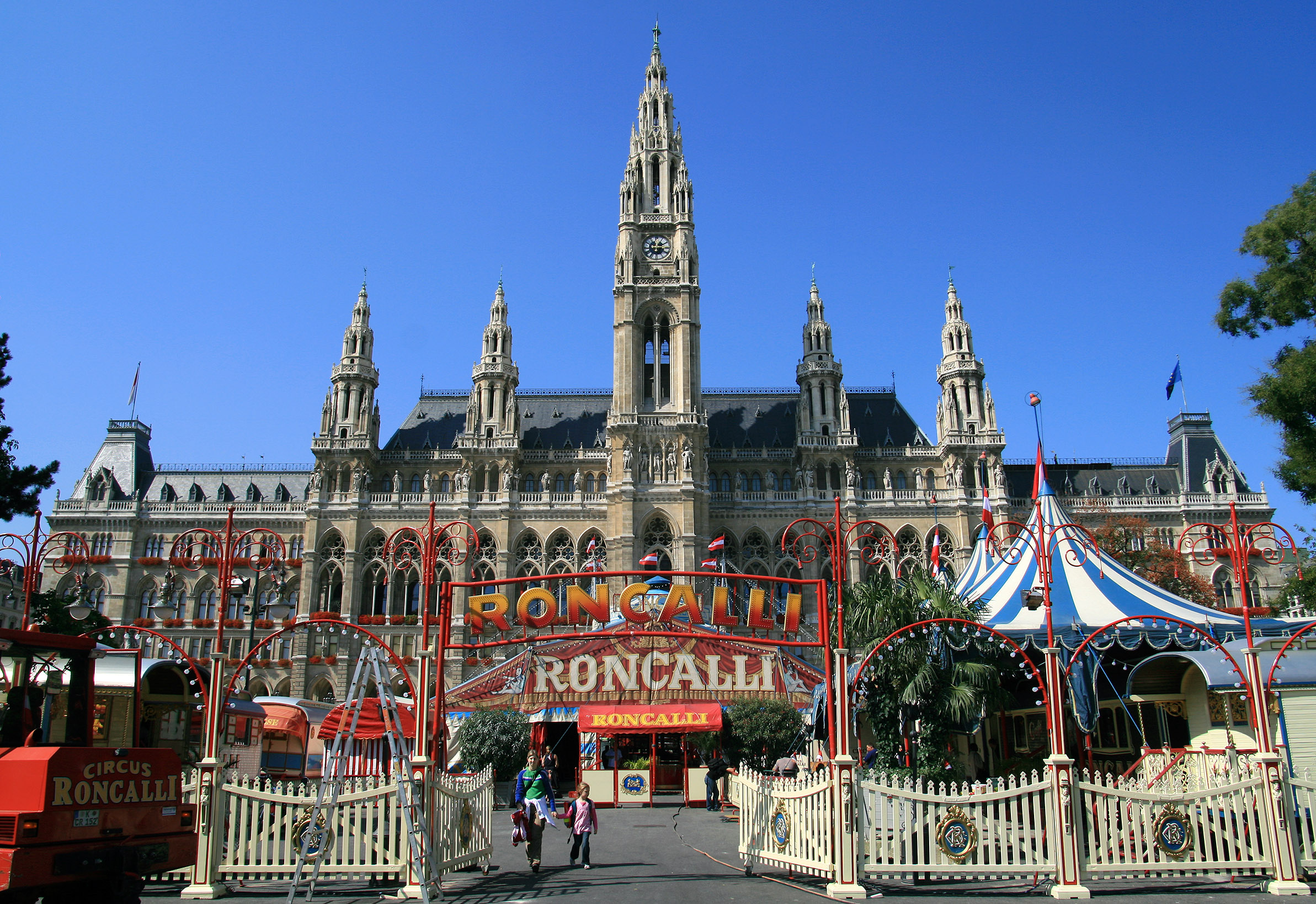 Circus Roncalli in front of the Rathaus (town hall) of Vienna.